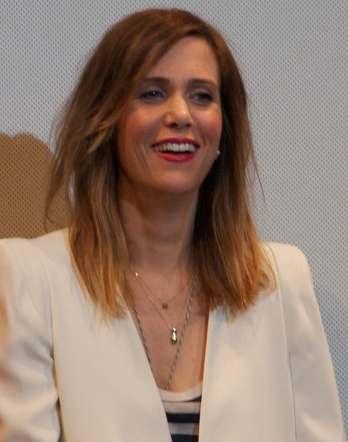 Kristen Wiig at the SXSW 2011.